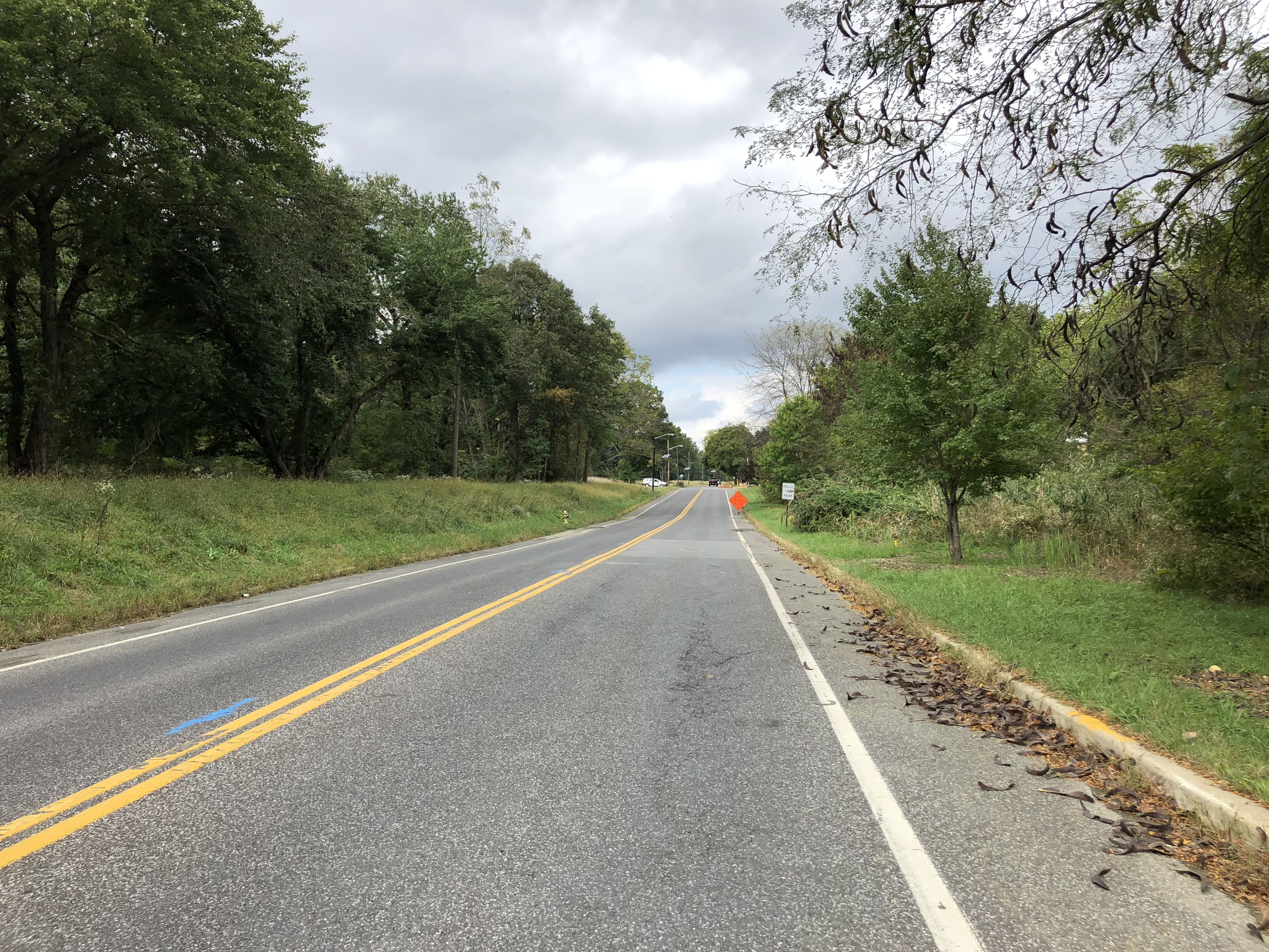 View north along Camden County Route 727 (Atlantic Avenue) just north of Minnetonka Road in Hi-Nella, Camden County, New Jersey